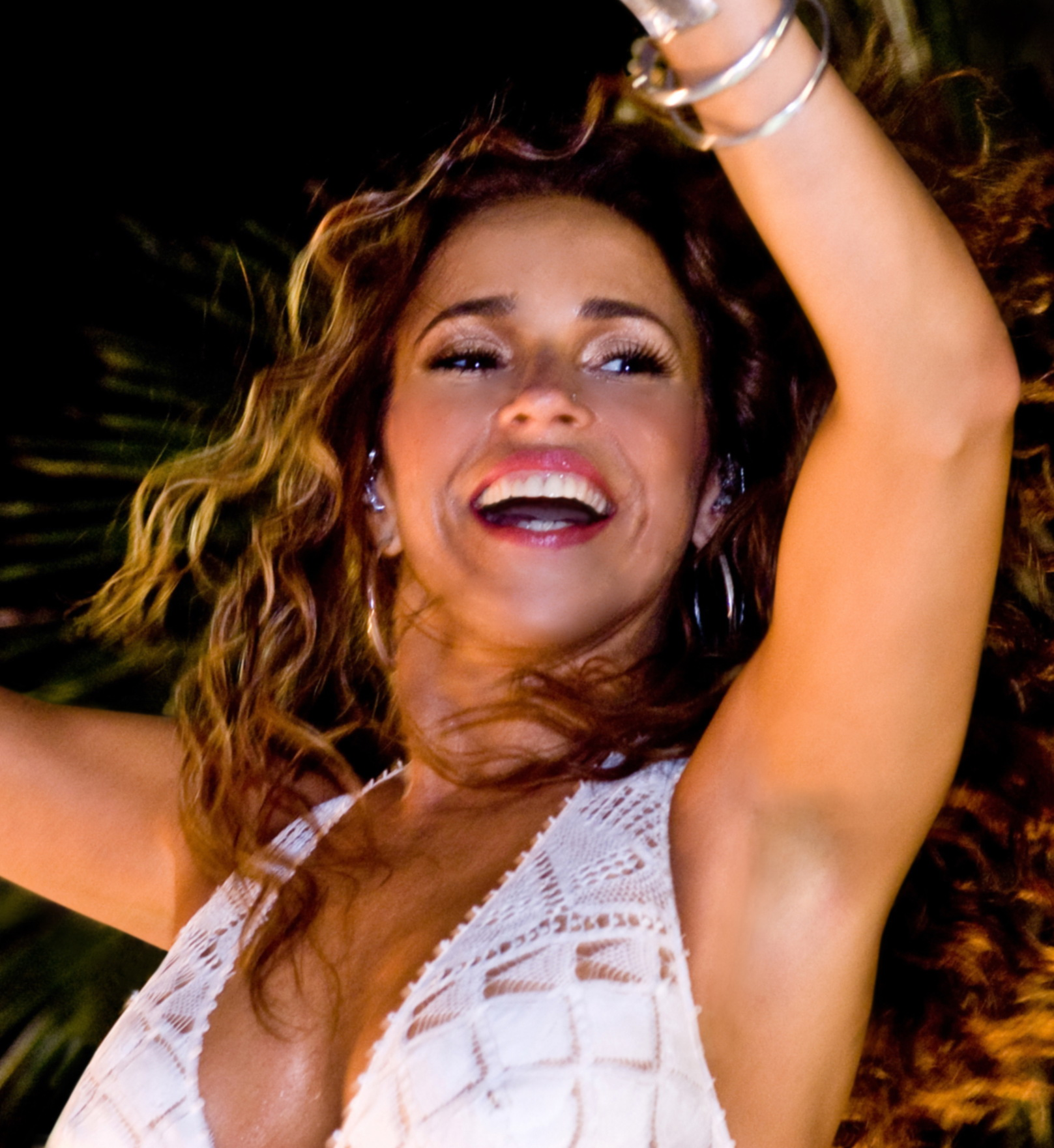 Daniela Mercury atop trio eletrico during carnaval in Salvador Bahia